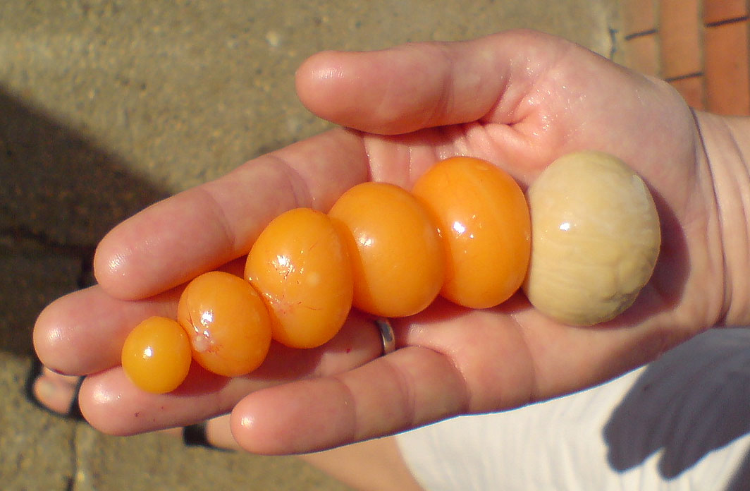 Butchered Chicken - Stages of the development of a chicken egg.